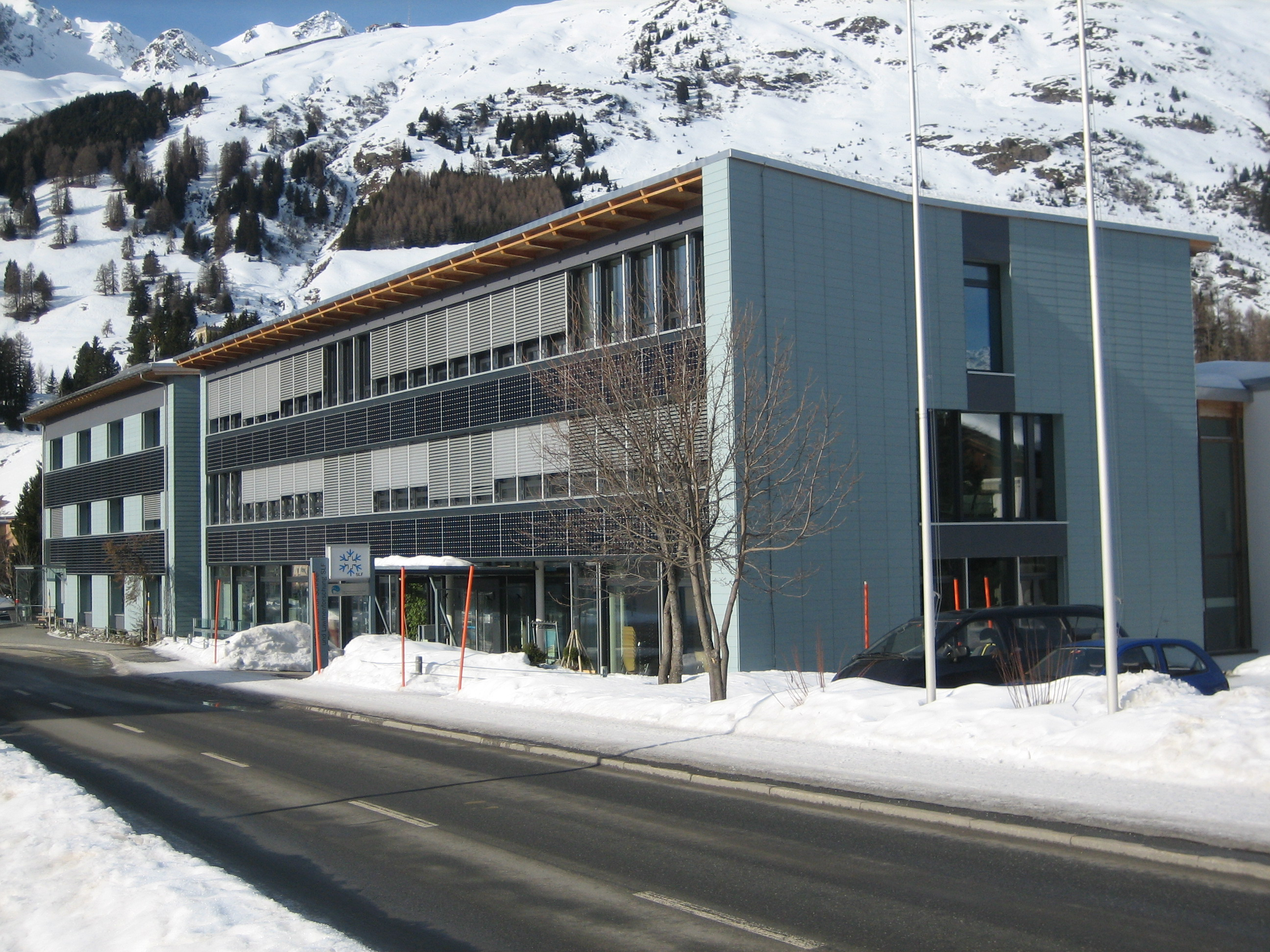 WSL Institute for Snow and Avalanche Research SLF, building of the institute on Flüelastrasse in Davos Dorf